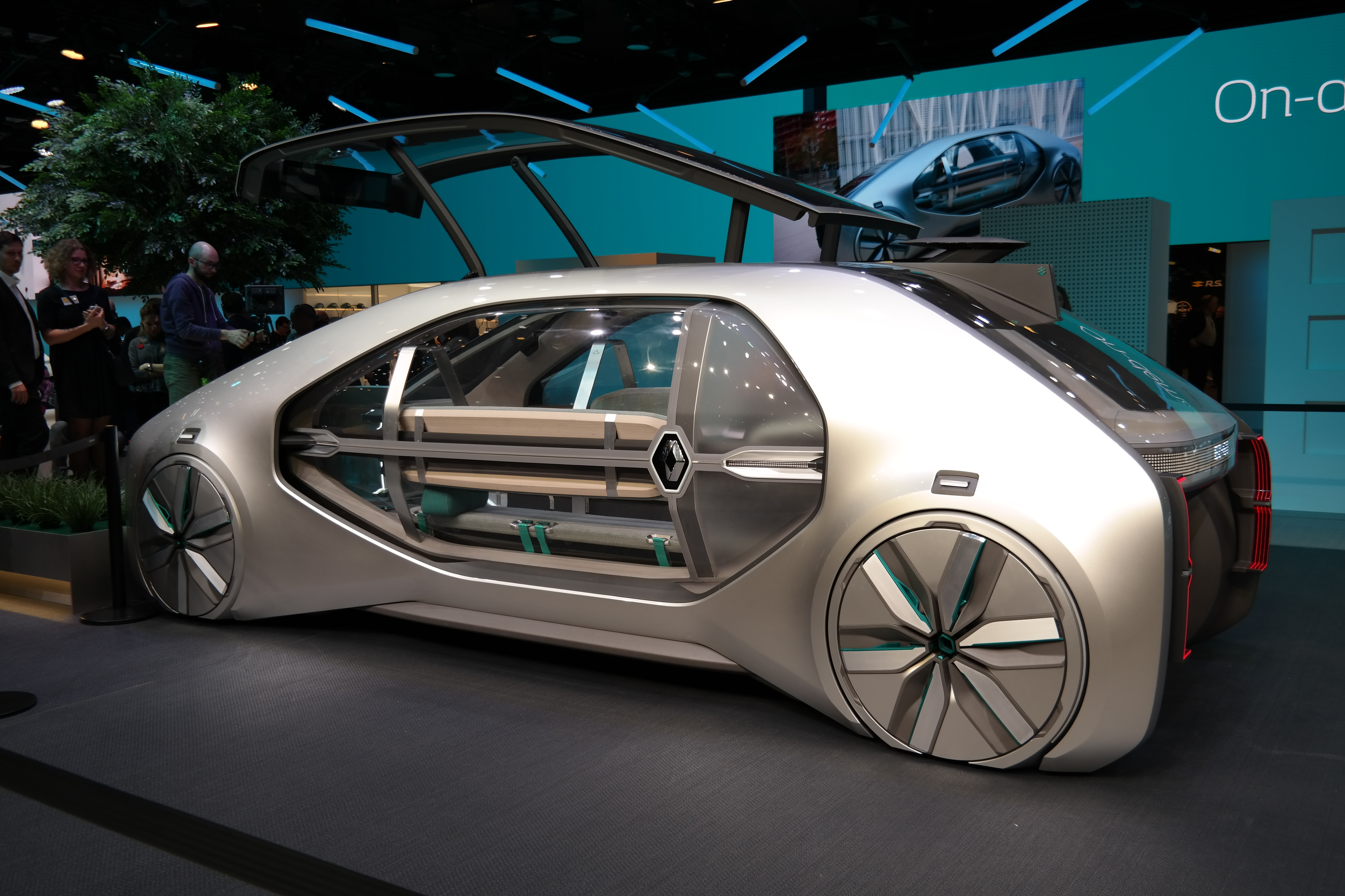 Geneva Motor Show 2018 (photo taken on the first press day)